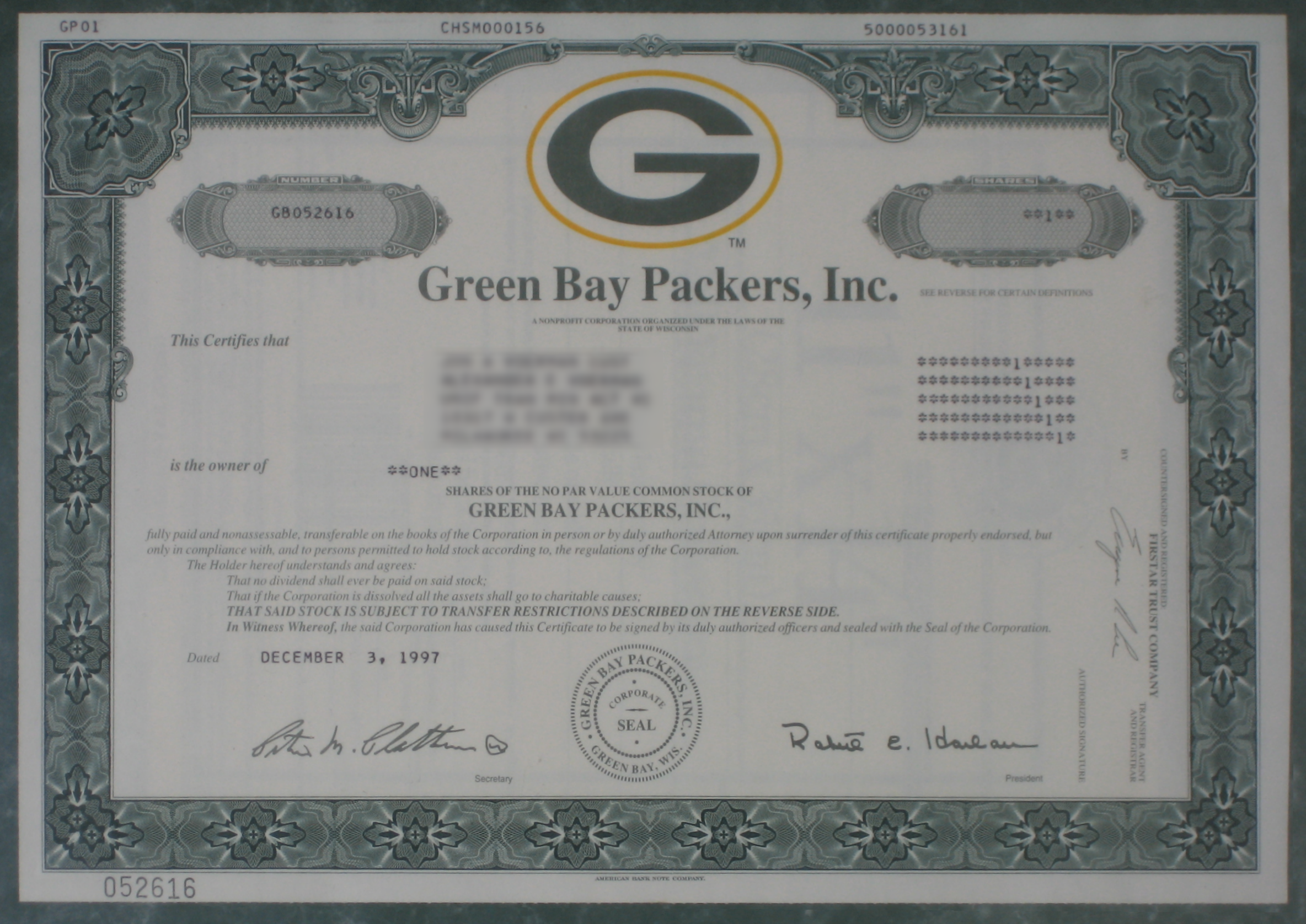 An image of a stock issued by the Green Bay Packers in 1997.